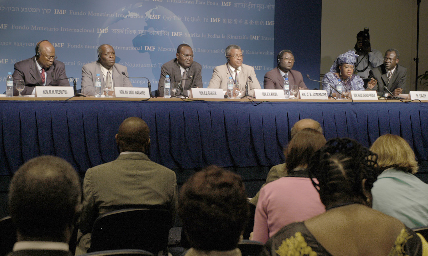 African Finance Ministers brief the press. From left to right: Michel Meva'a Meboutou, Minister of Economy and Finance for Cameroon; Ng'andu P. Magande, Minister of Finance and National Planning for Zambia; Ali Badjo Gamatie, Minister of Finance for Niger; B.R. Kukuri, Deputy Minister of Finance for Namibia; Jean Baptiste Compaore, Minister Delegate to the Prime Minister for Burkina Faso; Ngozi Okonjo-Iweala, Minister of Finance for Nigeria; Bassirou Sarr, Advisor in the IMF's External Relations Department.